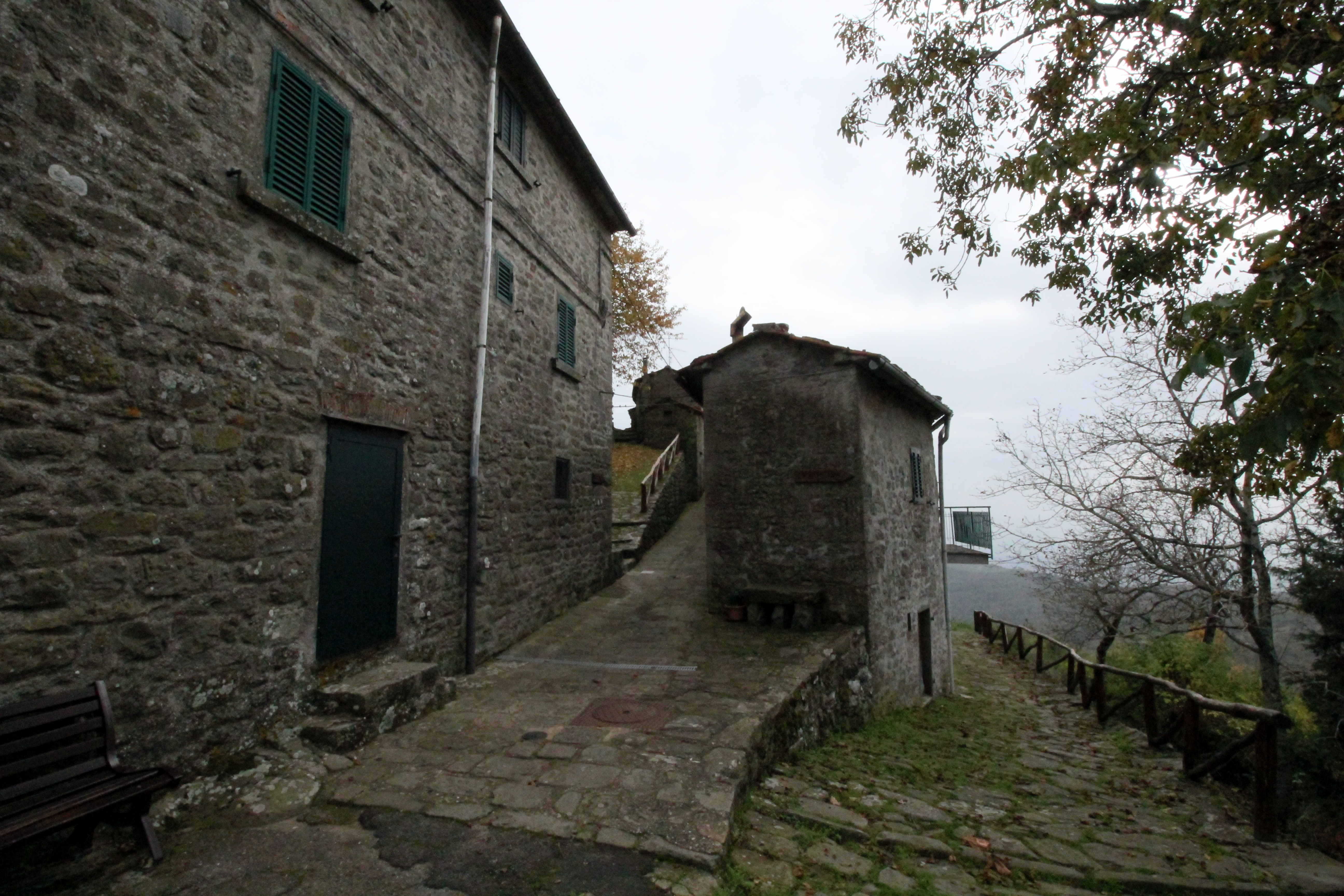 Village of Anciolina, hamlet of Loro Ciuffenna, Province of Arezzo, Tuscany, Italy